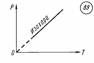 Изохоралық процесс